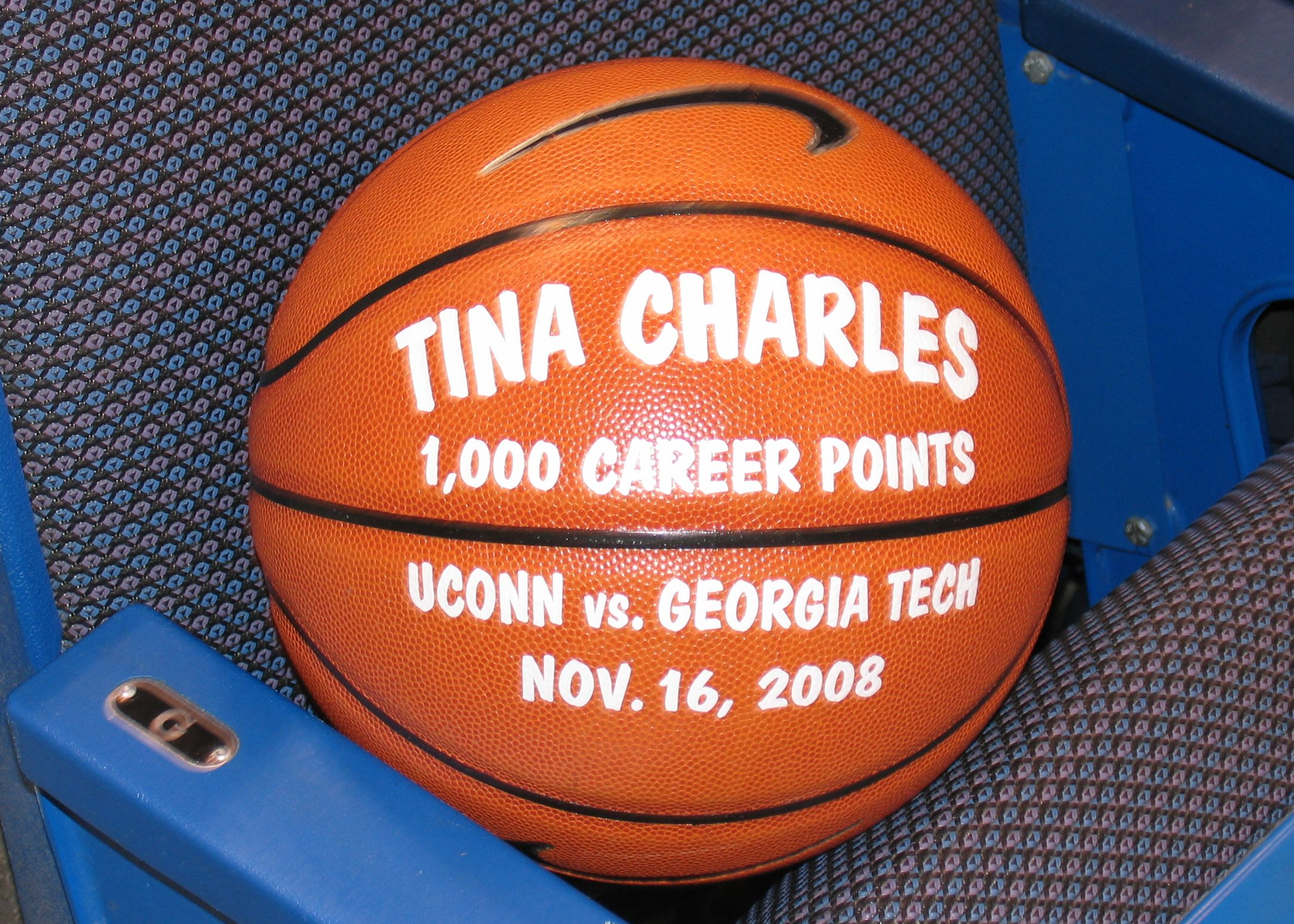 Photograph taken by Danny Karwoski following presentation of 1000 point commemorative ball to Tina. Danny provided photograph to me, and released all rights.